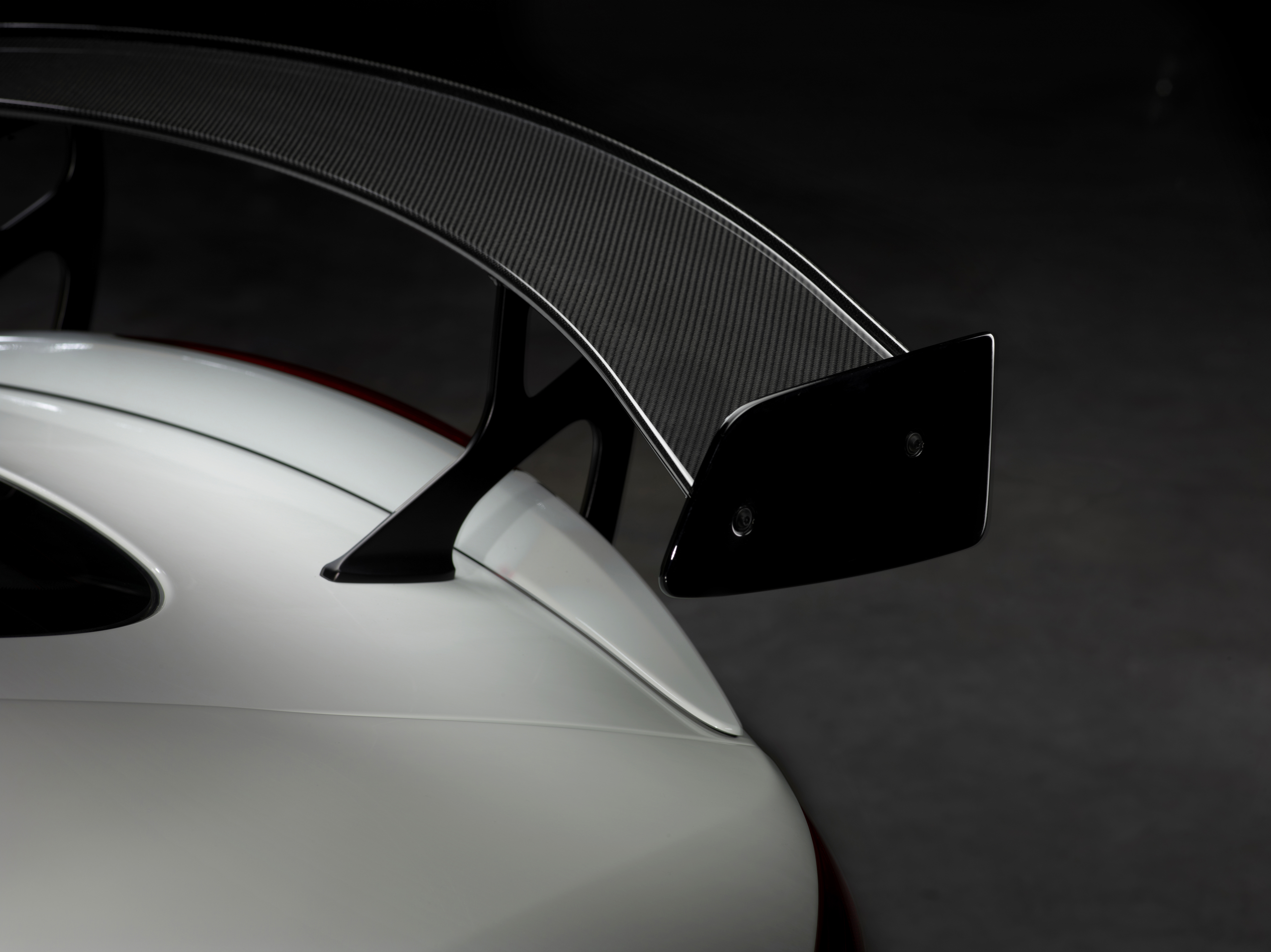 The XKR-S GT is the most extreme iteration of the Jaguar R Brand's performance focus. Utilising race-car derived technology, all-aluminium construction and an uncompromised approach to aerodynamic efficiency, the result is a car as capable on the track as it is exhilarating on the road.